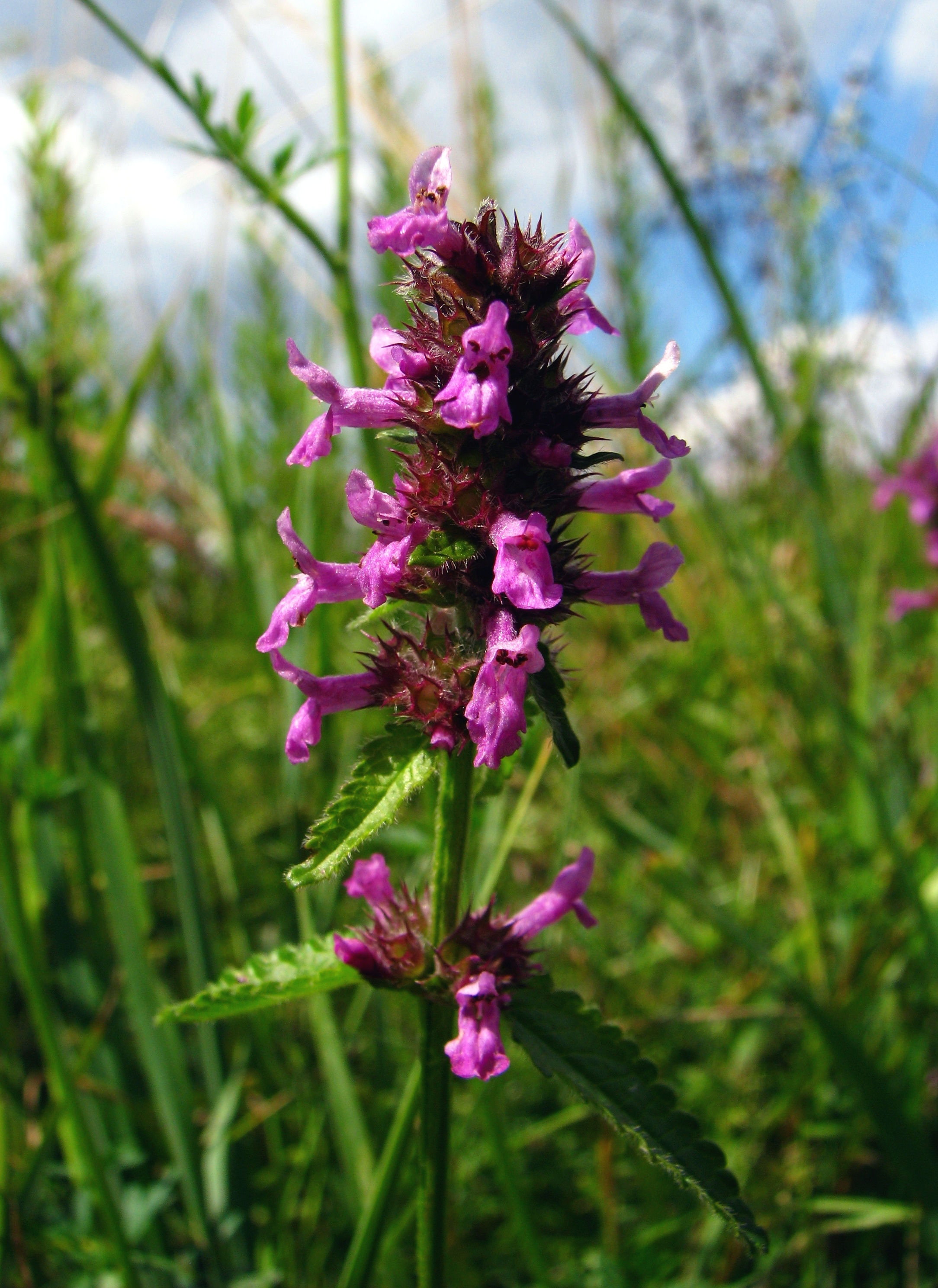 Stachys officinalis inflorescence, meadows near the Widawa river in Sołtysowice, Wrocław, Poland.